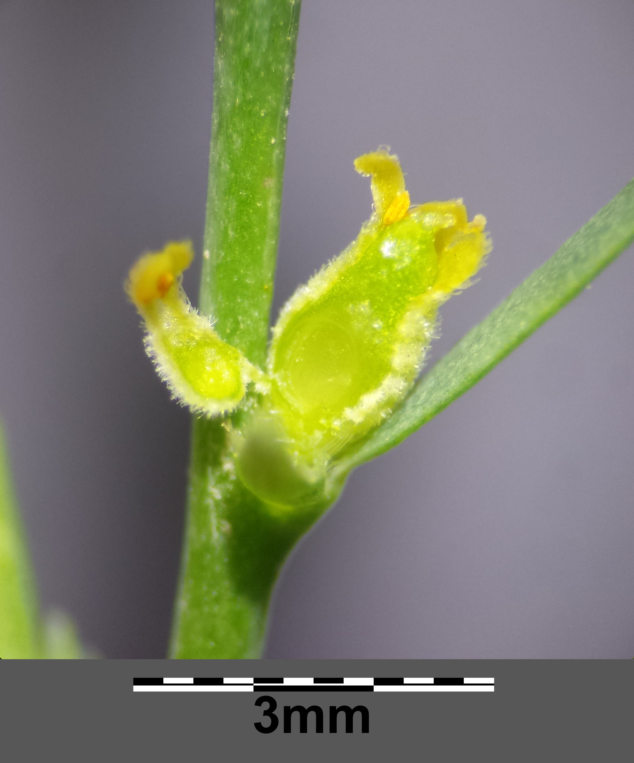 Flower, opened Taxonym: Thymelaea passerinass Fischer et al. EfÖLS 2008 ISBN 978-3-85474-187-9 Location: near Michaelibründl at Michelberg, district Korneuburg, Lower Austria - ca. 330 m a.s.l. Habitat: field